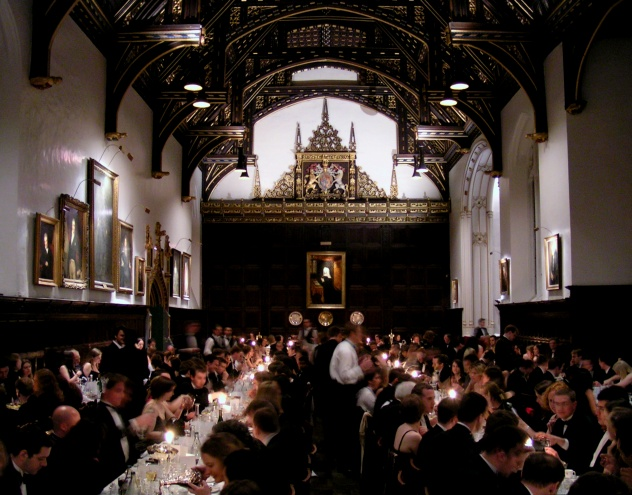 Photo I took at a formal dinner on 2 April 2005 in St John's College, Cambridge Formal Hall.